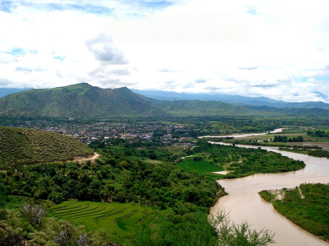 Bagua: Warm and Solidarity